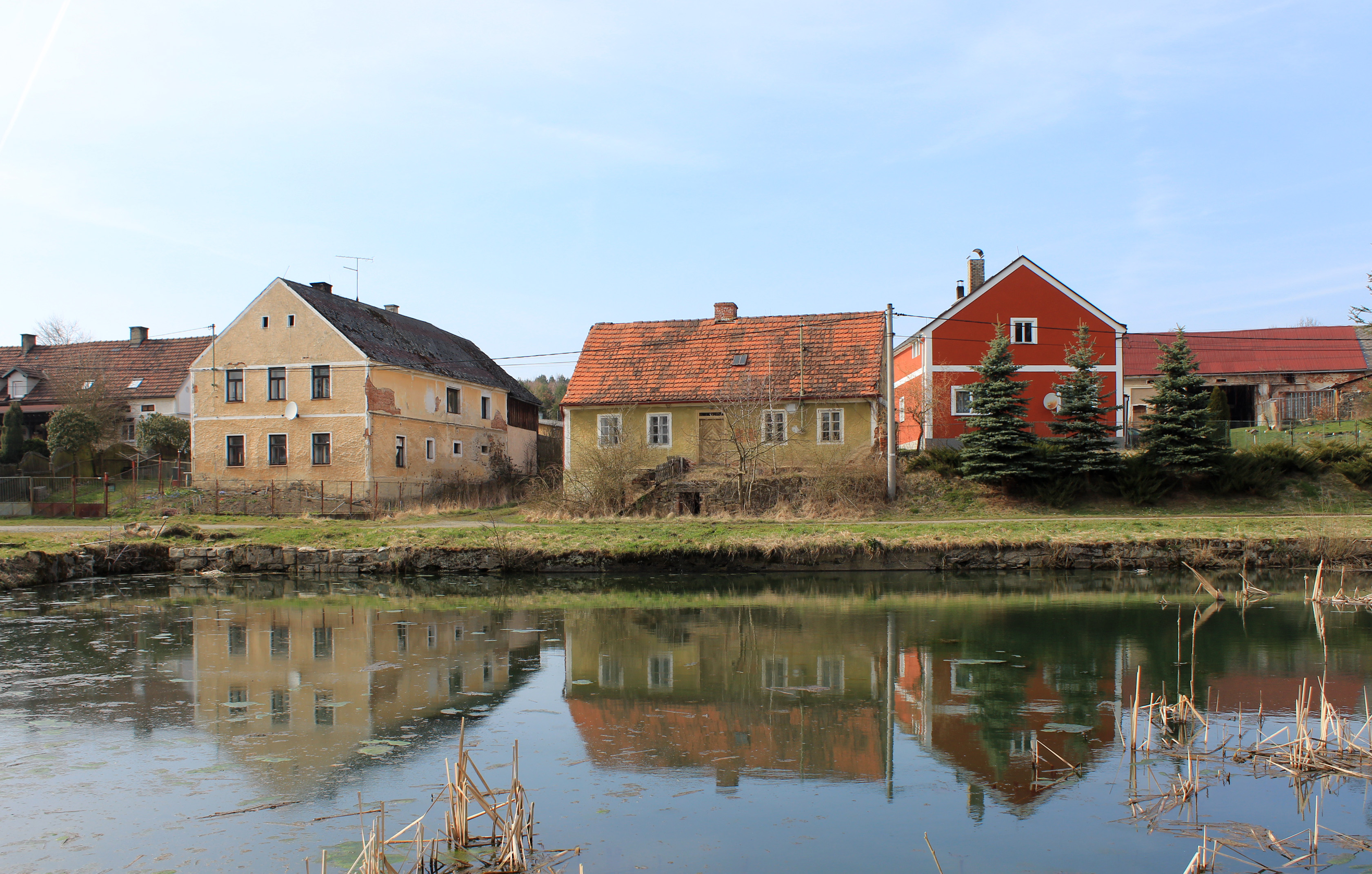 Lower pond in Čečín, part of Bělá nad Radbuzou, Czech Republic.